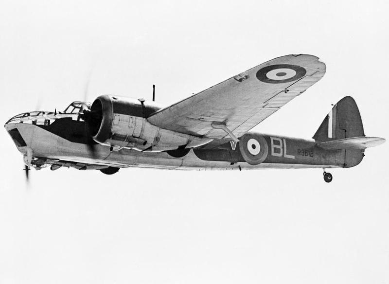 IWM caption : Blenheim Mark IV, R3612 ‘BL-V’, of No. 40 Squadron RAF based at Wyton, Huntingdonshire, in flight. R3612 previously served with the Photographic Development Unit. It was lost with its entire crew on 8/9 September 1940 during a night raid on invasion barges at Ostend.